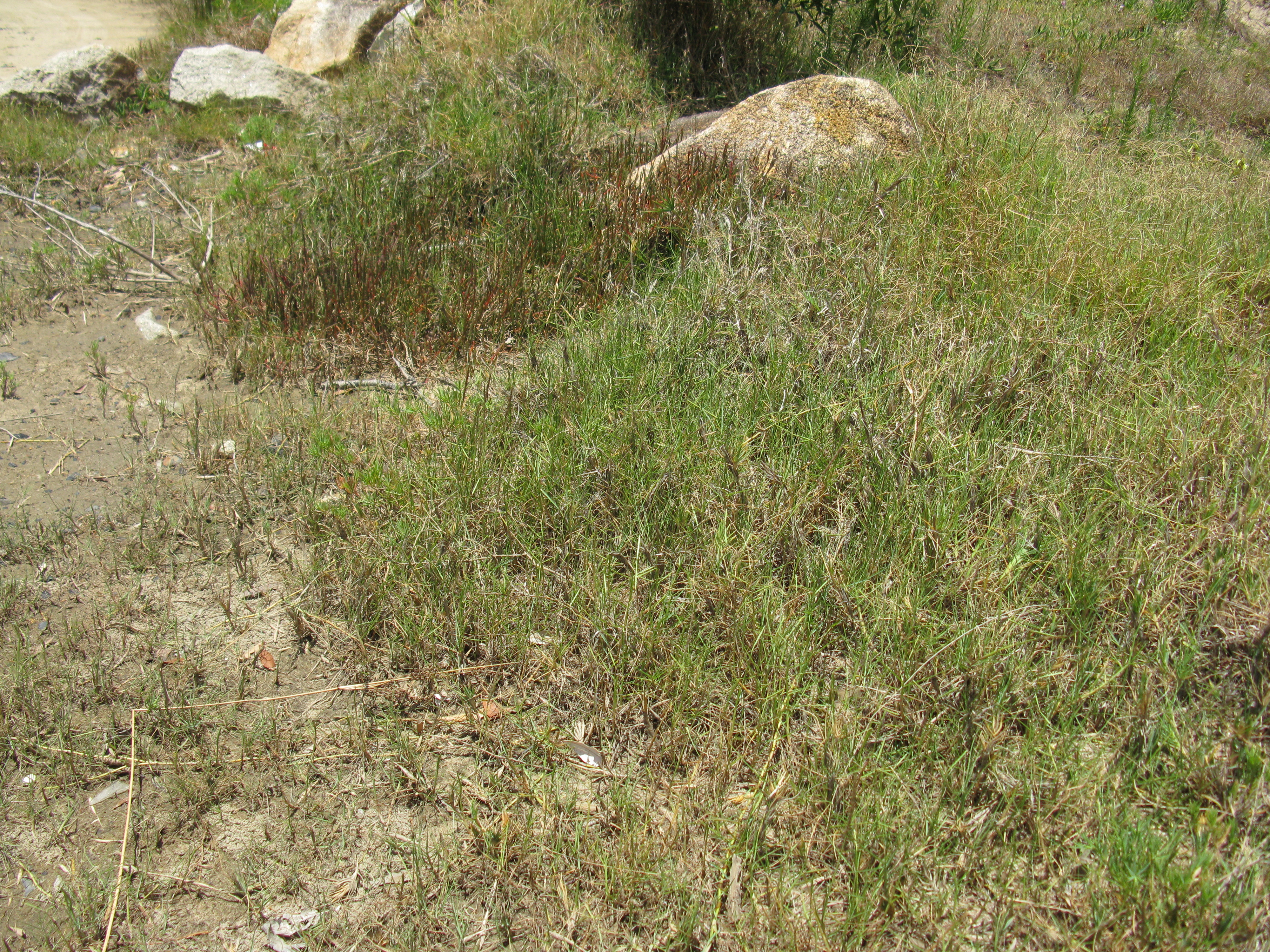 Native, warm-season, perennial, mat-forming grass, to 50 cm tall and with stolons and rhizomes to 5 m long. Grows near saline or brackish waters.